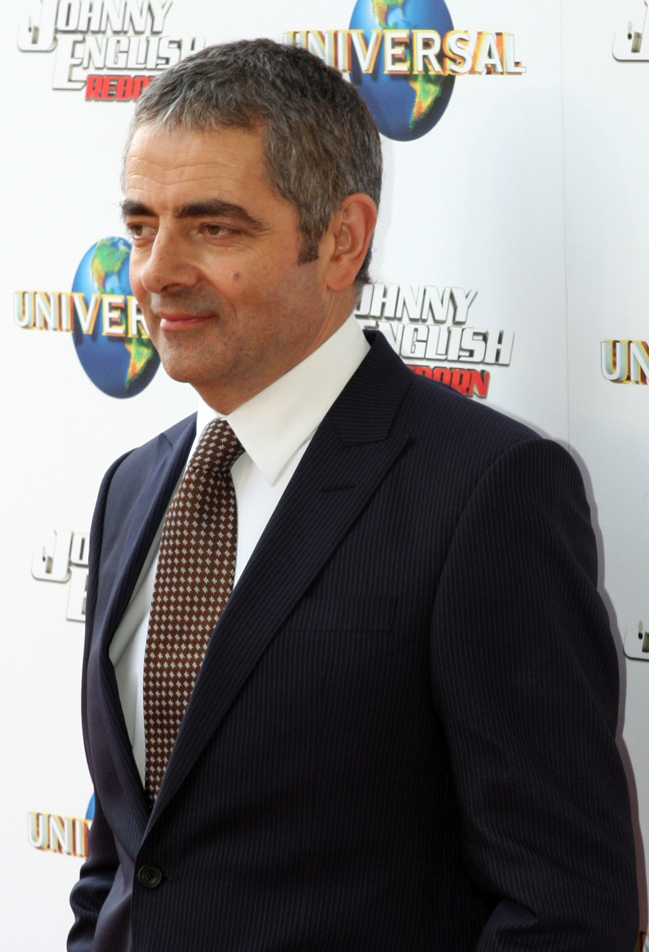 Rowan Atkinson at the premiere for Johnny English Reborn in September 2011